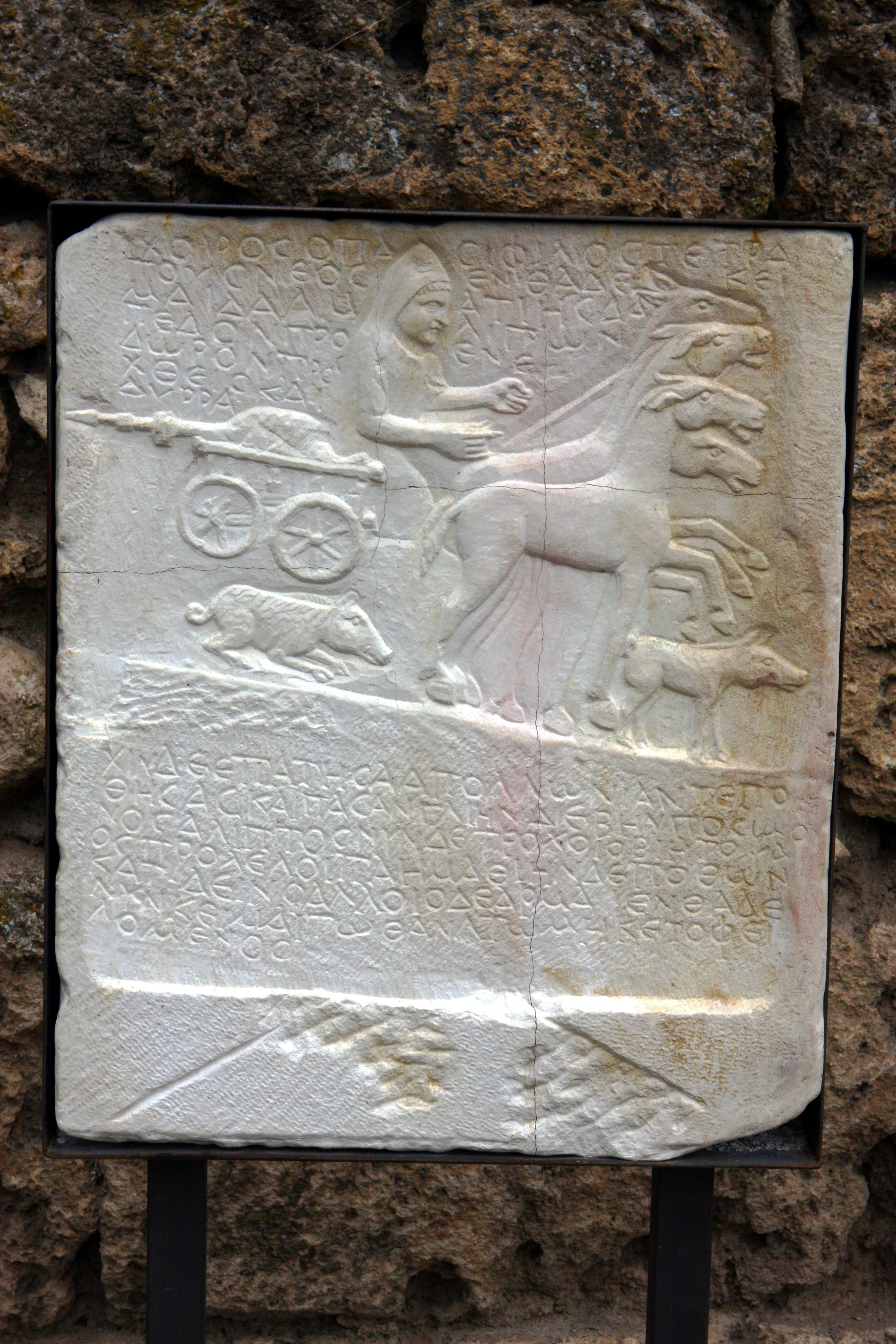 Stele for a dead pig in Edessa (copy, but at the find spot)